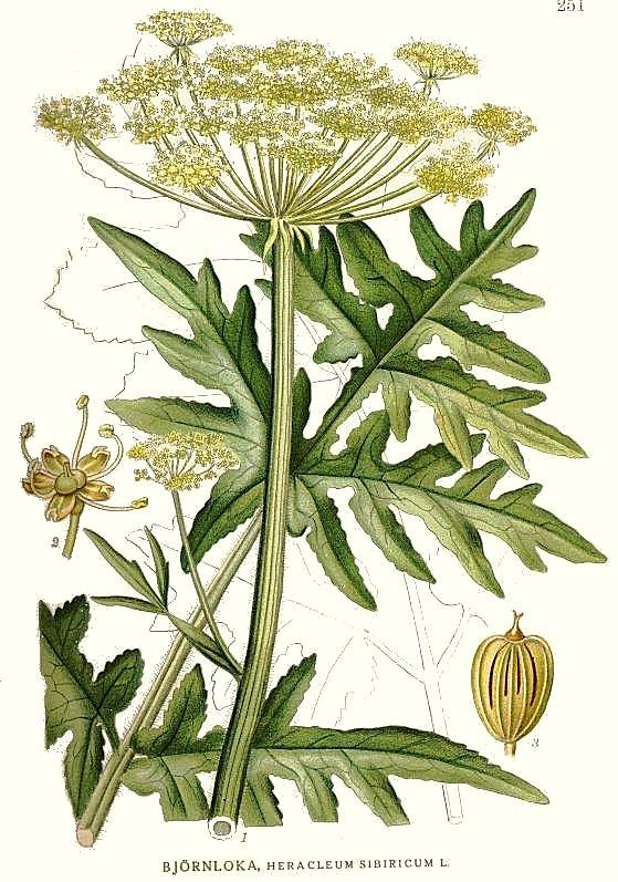 Heracleum sphondylium subsp. sibiricum Original Description Björnloka, Heracleum sibiricum L.